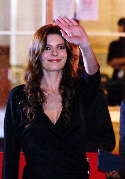 Chiara Mastroianni at the 2008 Césars academy awards ceremony